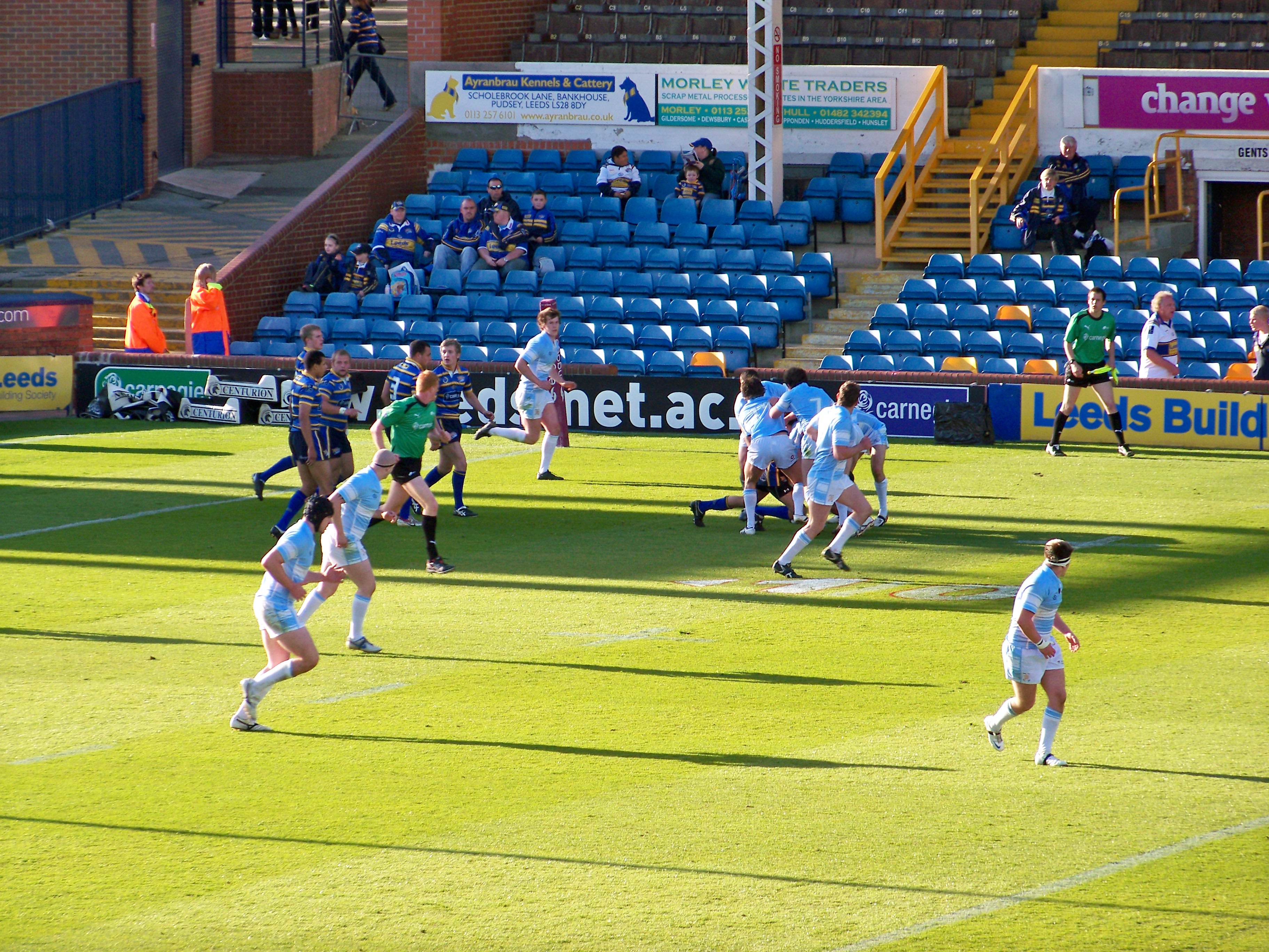 Leeds Rhinos playing Hull FC in a Rugby League game at the Headingley Carnegie Stadium, Headingley, Leeds, West Yorkshire, UK. Taken on an evening match on Tuesday 26th May 2009.